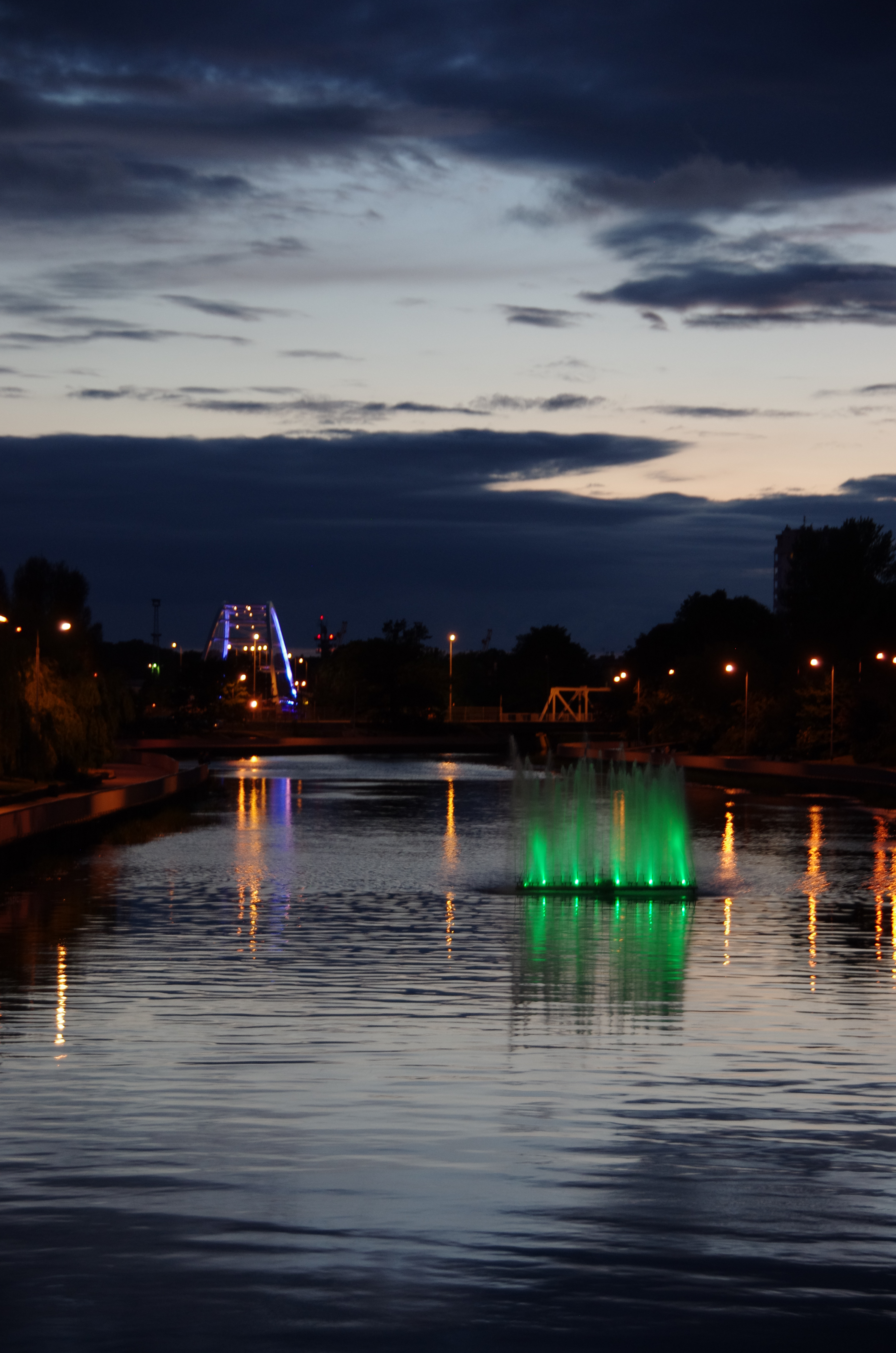 Parsęta in Kołobrzeg with new bridge and lights